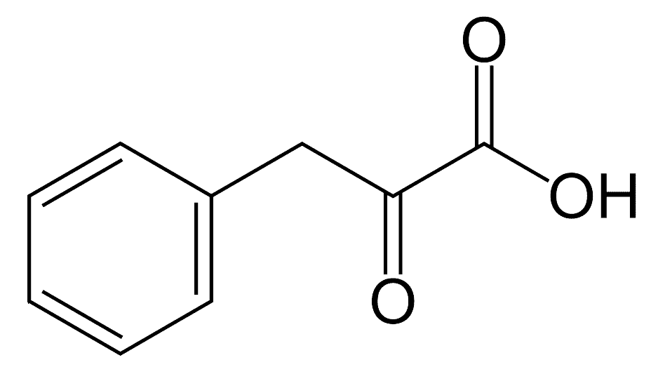 phenylpyruvic acid